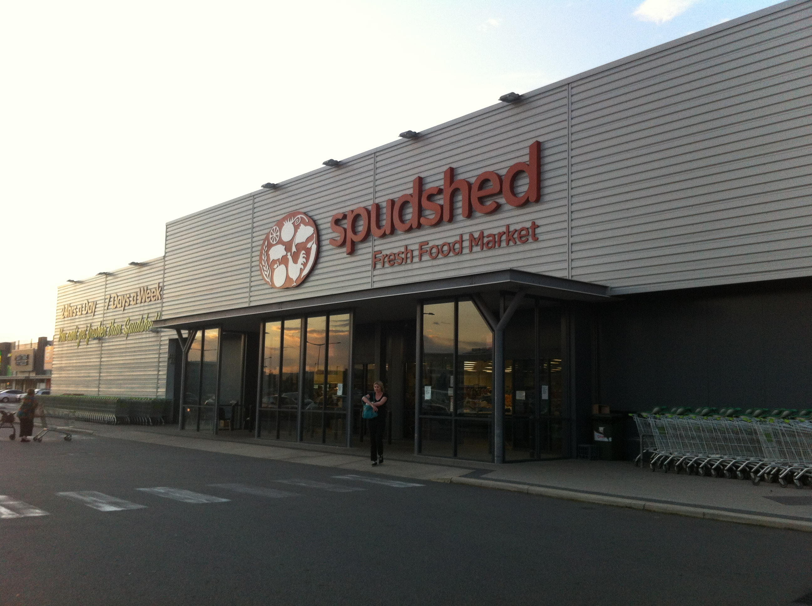 Spudshed Jandakot store, taken September 2015